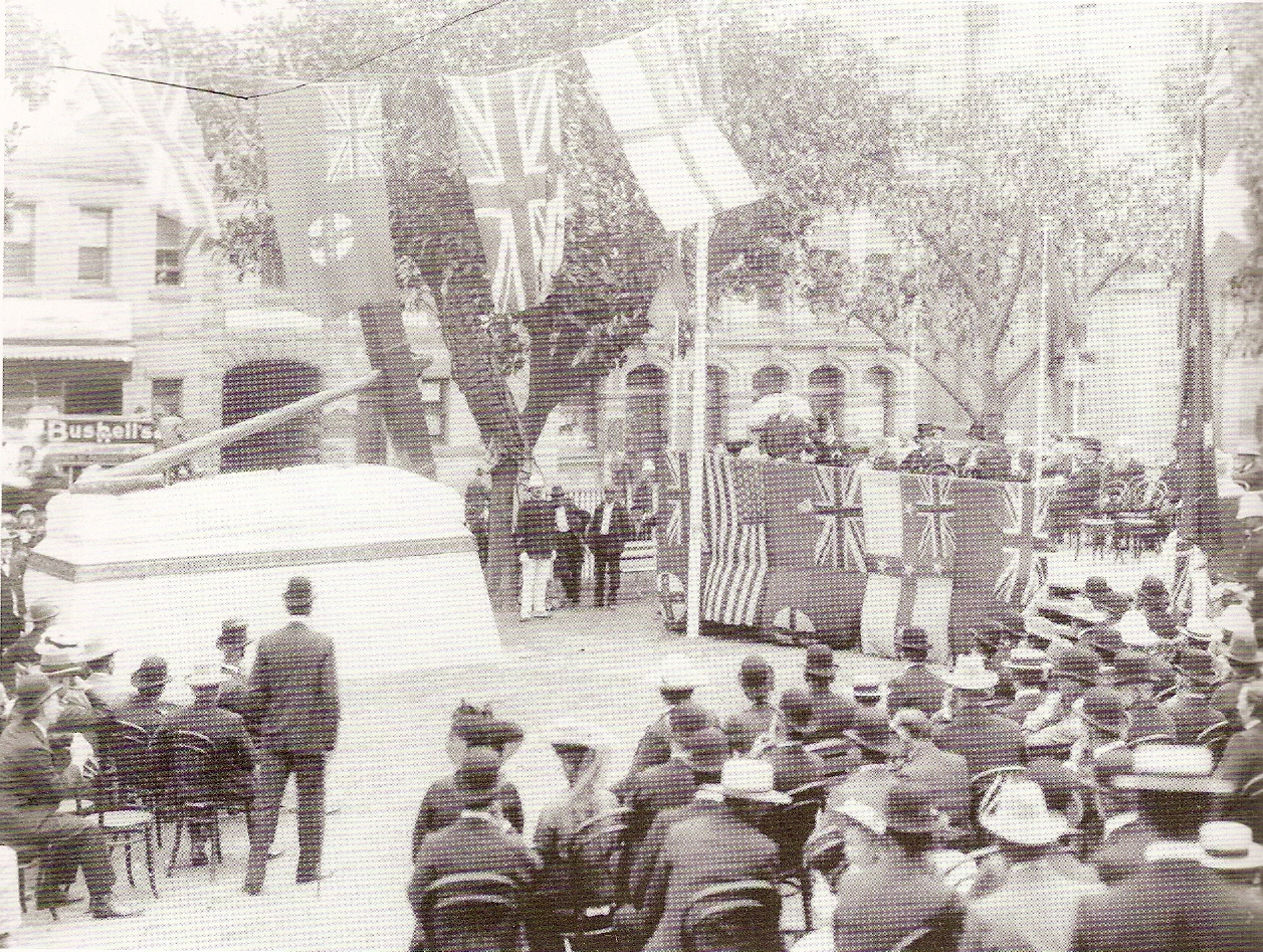 This photograph shows the unveiling of the anchor of HMS Sirius at Macquarie Place in Sydney, NSW, Australia.